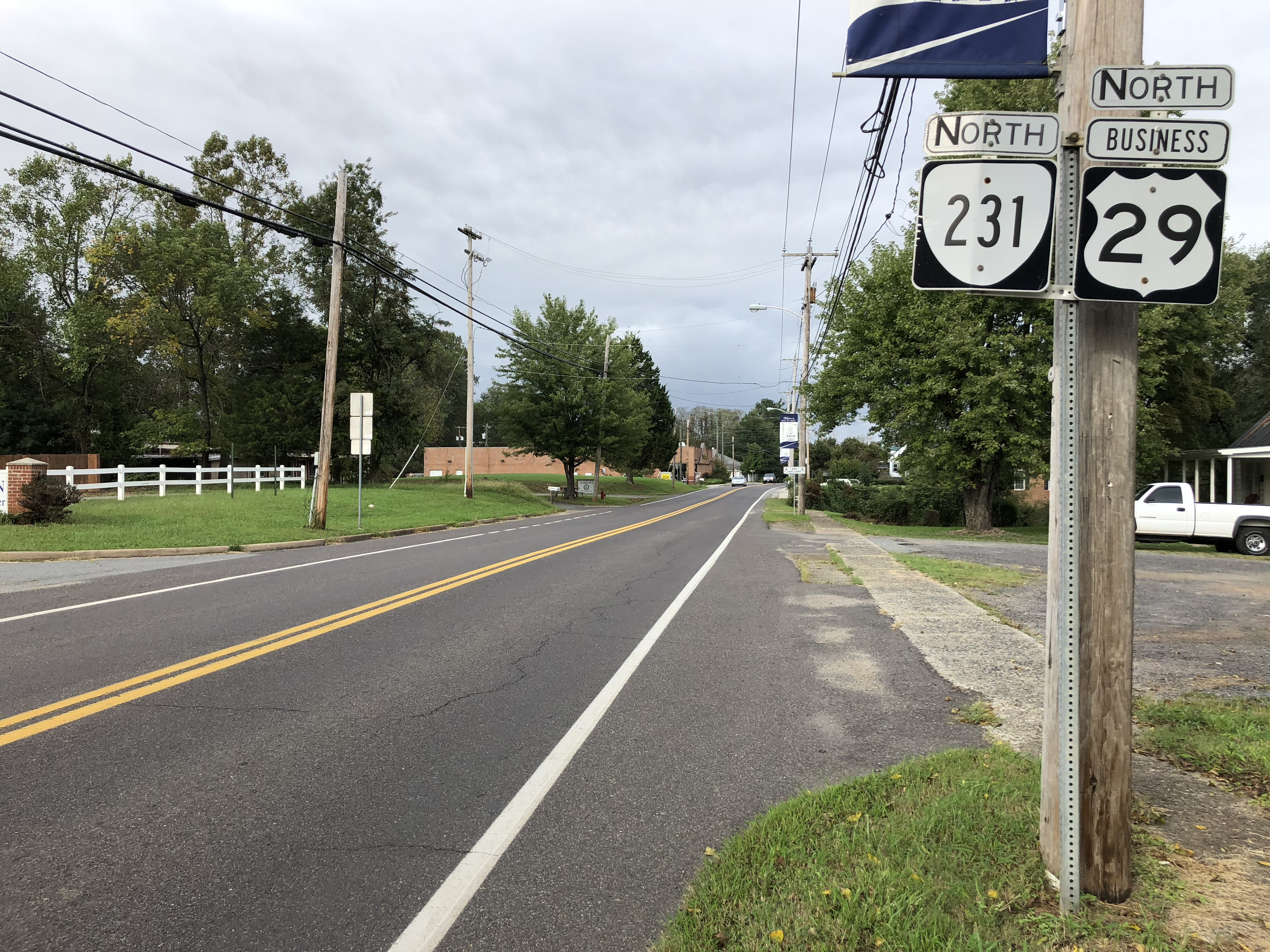 View north along U.S. Route 29 Business and Virginia State Route 231 (Main Street) just north of Fairground Road (Virginia State Route 687) in Madison, Madison County, Virginia